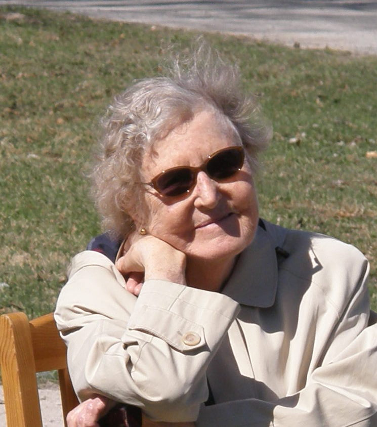 Linguist Ilse Lehiste in Väike-Maarja, Estonia.